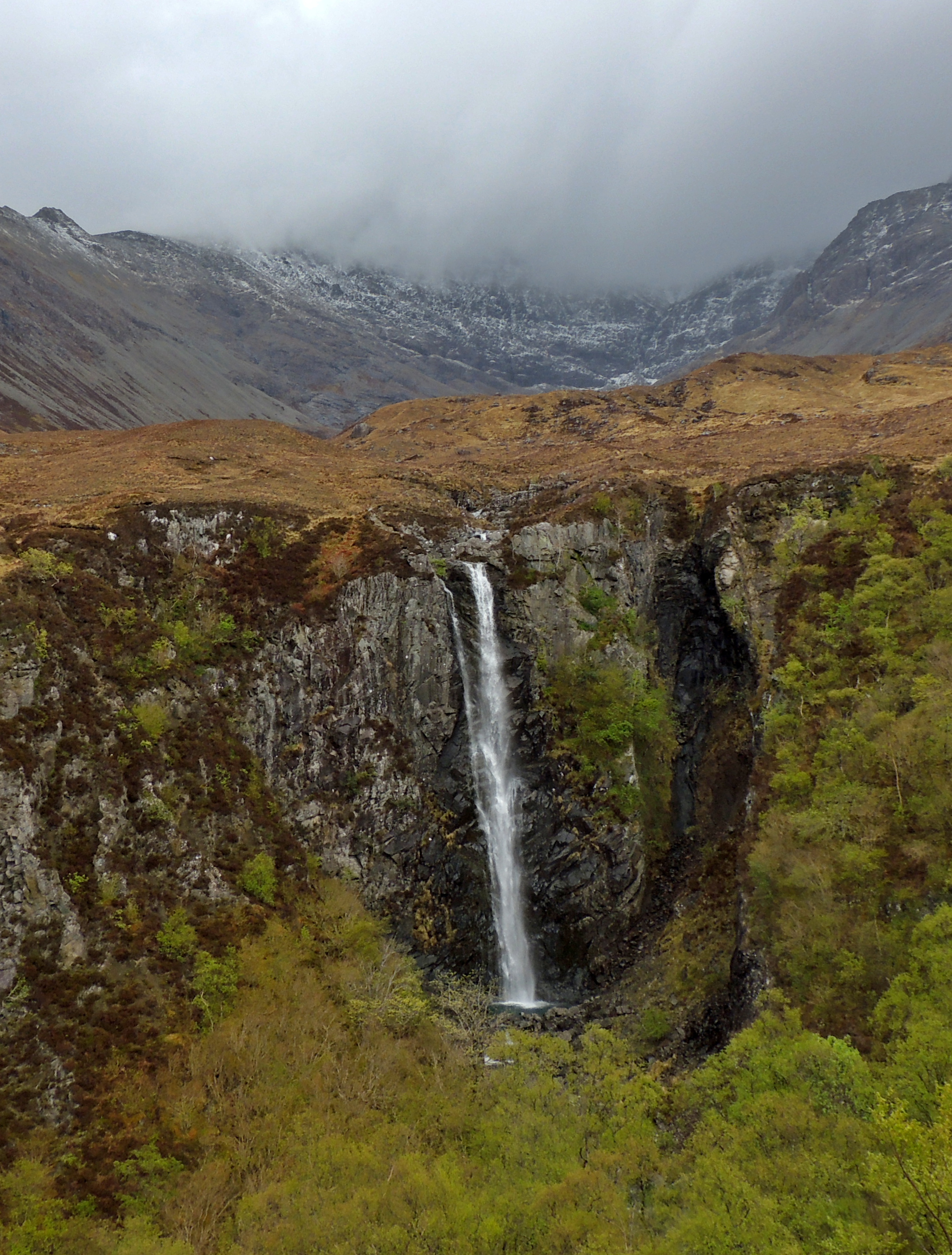 Eas Mòr Waterfall in Glen Brittle, Isle of Skye